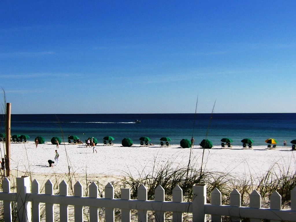 Destin, Florida